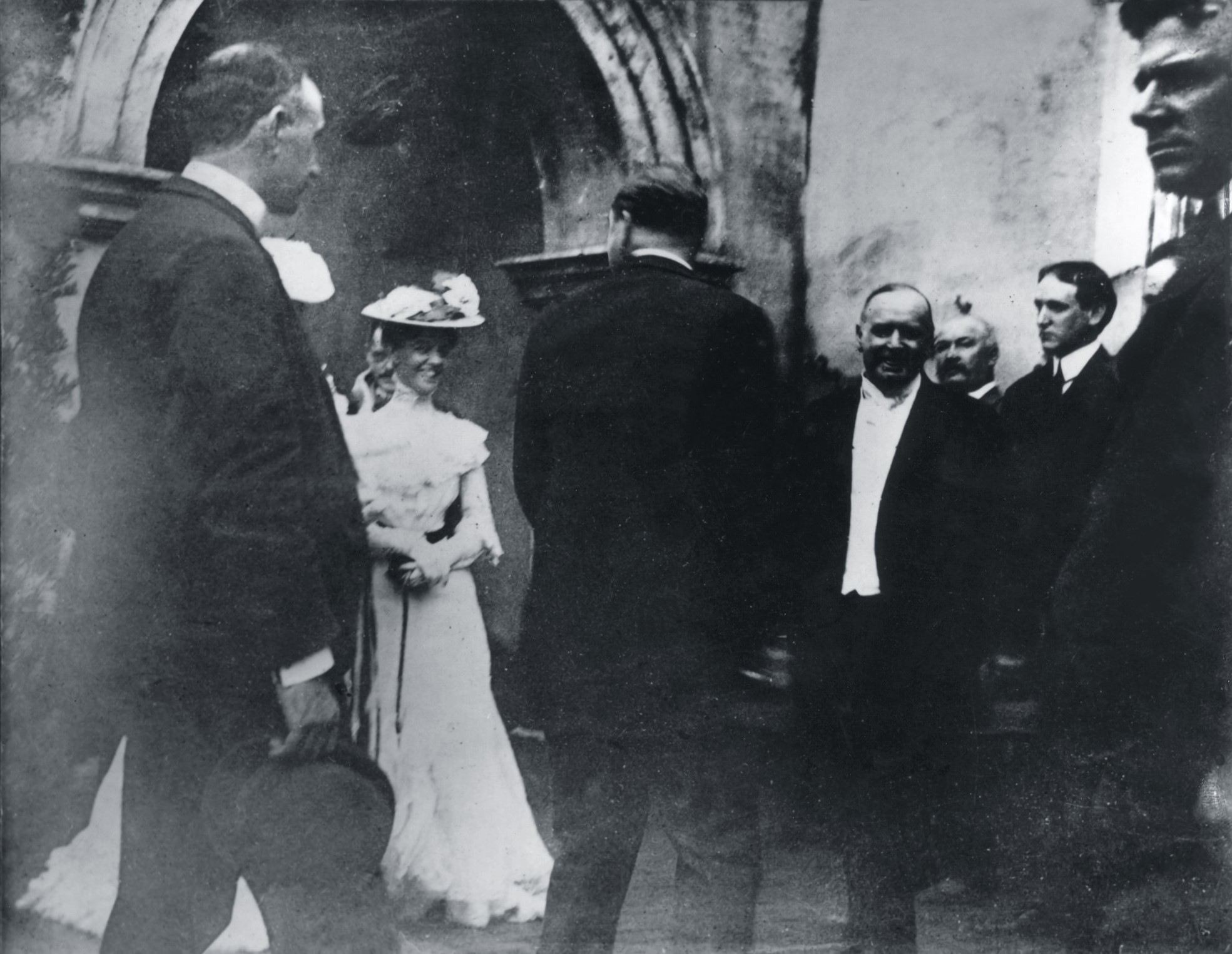 President McKinley Greeting Well-Wishers at a Reception in the Temple of Music. September 6, 1901 (minutes before he was shot). Photographer: Undetermined. Source: The Prints and Photographs Division of the Library of Congress